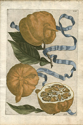 Aurantium corniculatum. Illustration (handcoloured copper plate engraving) from: Giovanni Baptista (or Barttista) Ferrari 'Hesperides, 1646